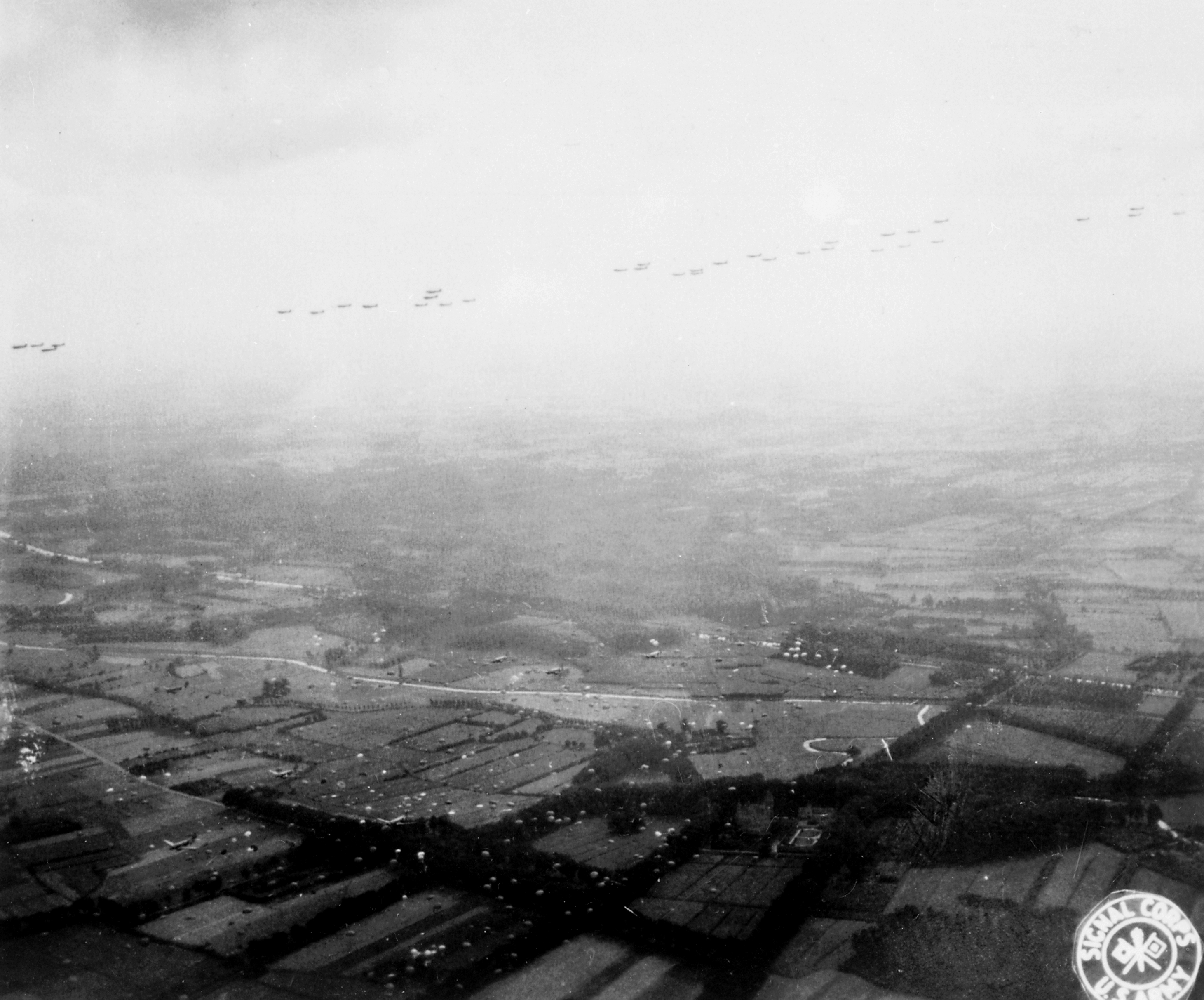 Original description: "A fleet of Allied aircraft flies overhead as paratroopers of the Allied Airborne Command float groundward in the invasion of the Netherlands, still another step towards the liberation of Europe., 09/17/1944"